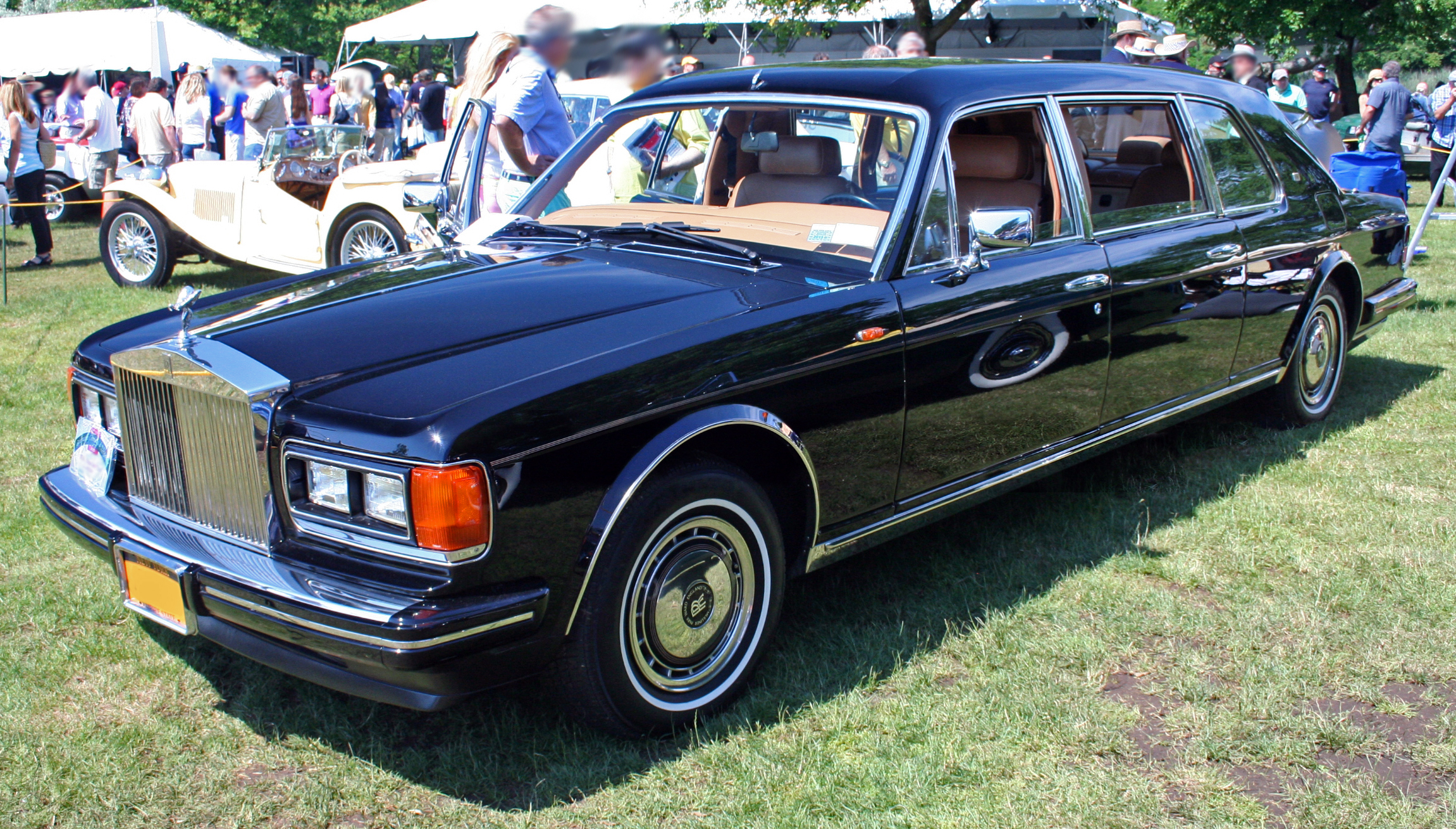 1993 Rolls-Royce Silver Spur II Mulliner Park Ward Touring Limousine, seen at the 2012 Greenwich Concours d'Elegance.